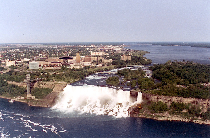 Niagara Falls - American Falls and Bridal Veil Falls